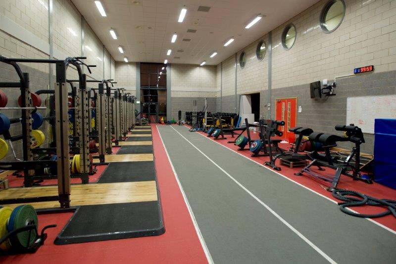 The Strength and Conditioning room used by The Newport Gwent Dragons.